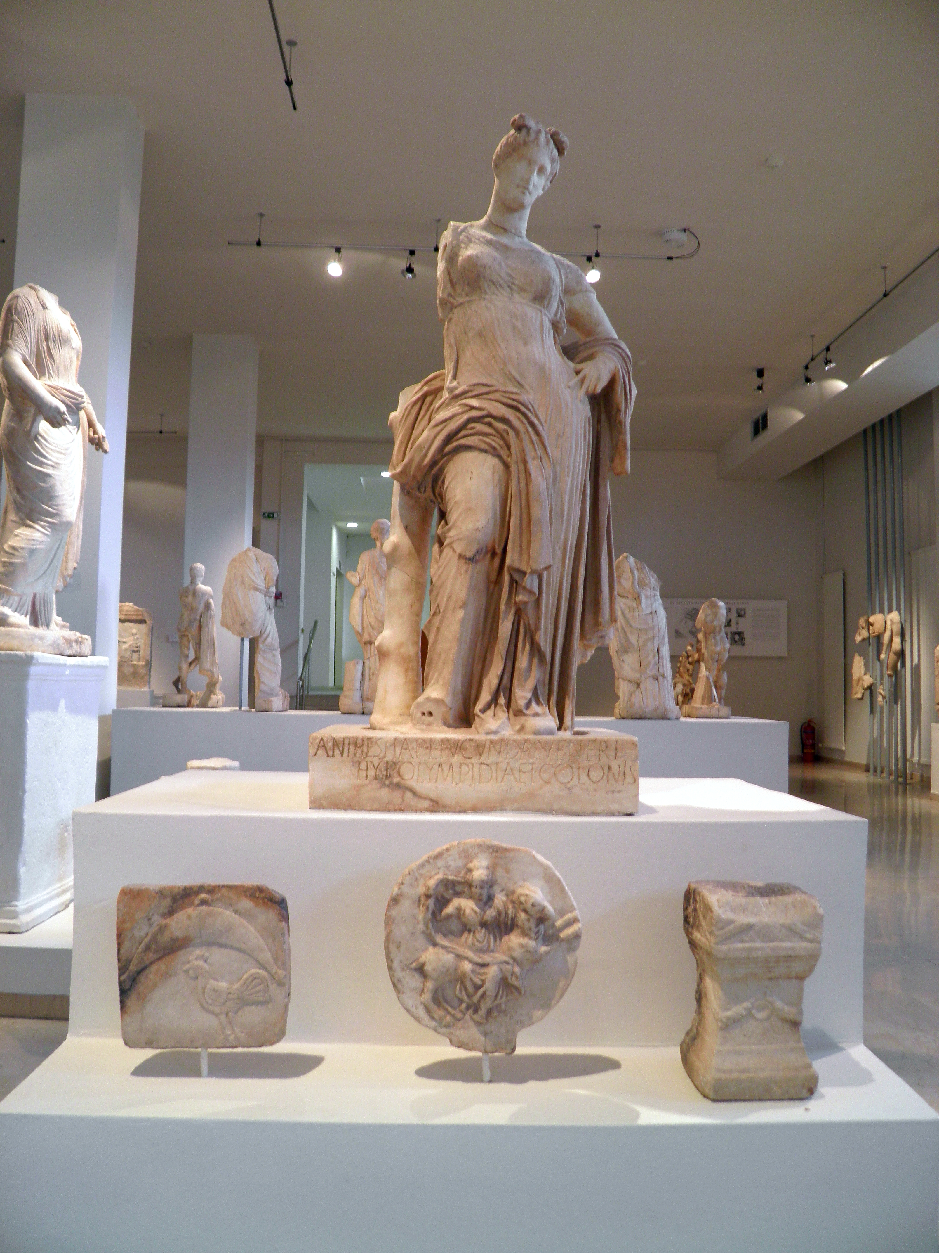 Marble cult statue of Aphrodite Hypolympidia and votive offerings, from the santuary of Isis, 2nd c. BC, Archaeological Museum, Dion